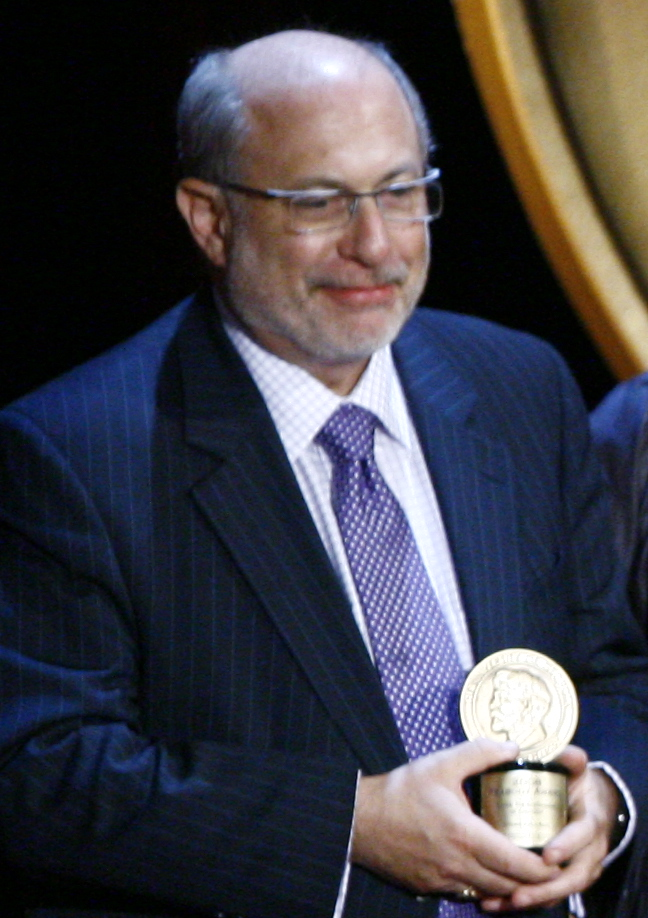 PHOTO CREDIT: ANDERS KRUSBERG / PEABODY AWARDS Melissa Block and Robert Siegel 69th Annual Peabody Awards Luncheon Waldorf=Astoria Hotel New York, NY USA May 17, 2010